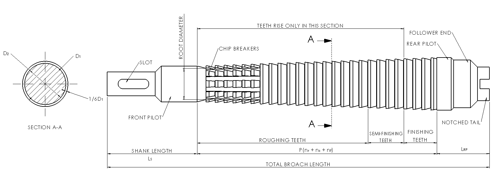 General geometry of a hole broach. Note that P is the pitch, nr is the number of roughing teeth, ns is the number of semi-finishing teeth, and nf is the number of finishing teeth. Based on diagram on from Degarmo, E. Paul; Black, J T.; Kohser, Ronald A. (2003), Materials and Processes in Manufacturing (9th ed.), p. 637. Wiley, ISBN 0-471-65653-4.